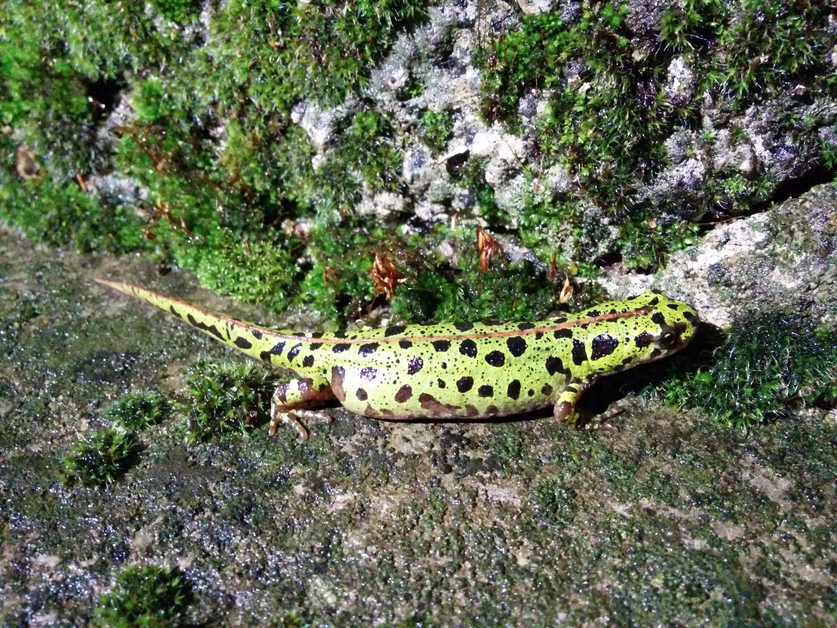 Specimen of pygmy newt photographed in Extremadura, Spain